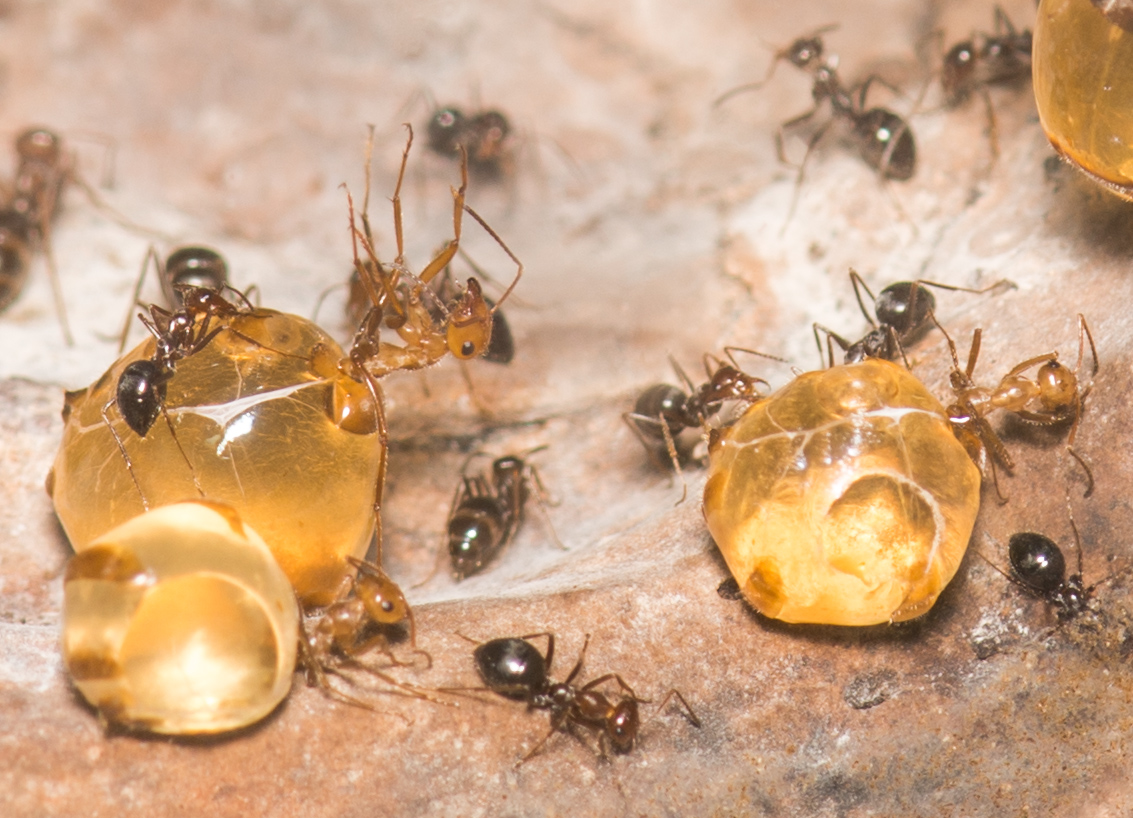 Showing three large repletes. Detailed crop of File:Honeypot ants (Myrmecocystus mimicus) at Oakland Zoo.jpg.